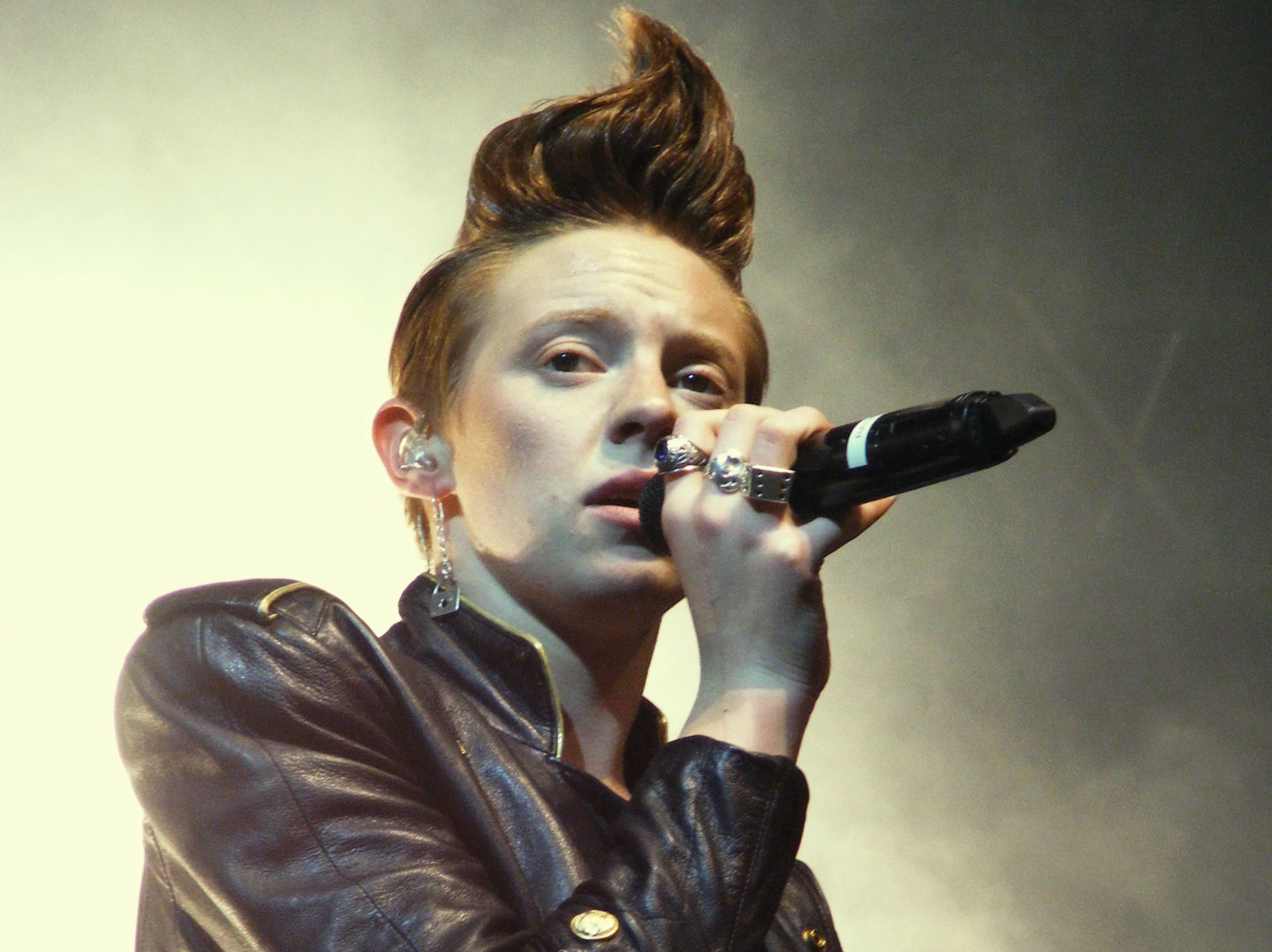 Elly Jackson of La Roux performing on 11 September 2010